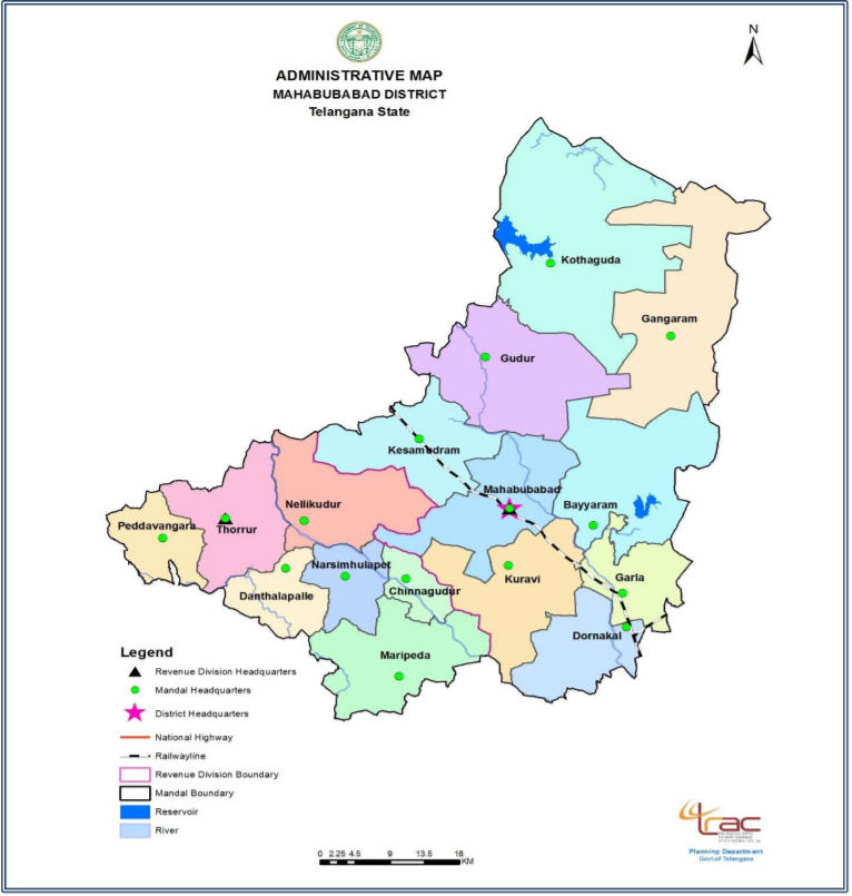 This is a map of Mahabubabad district in telangana state.